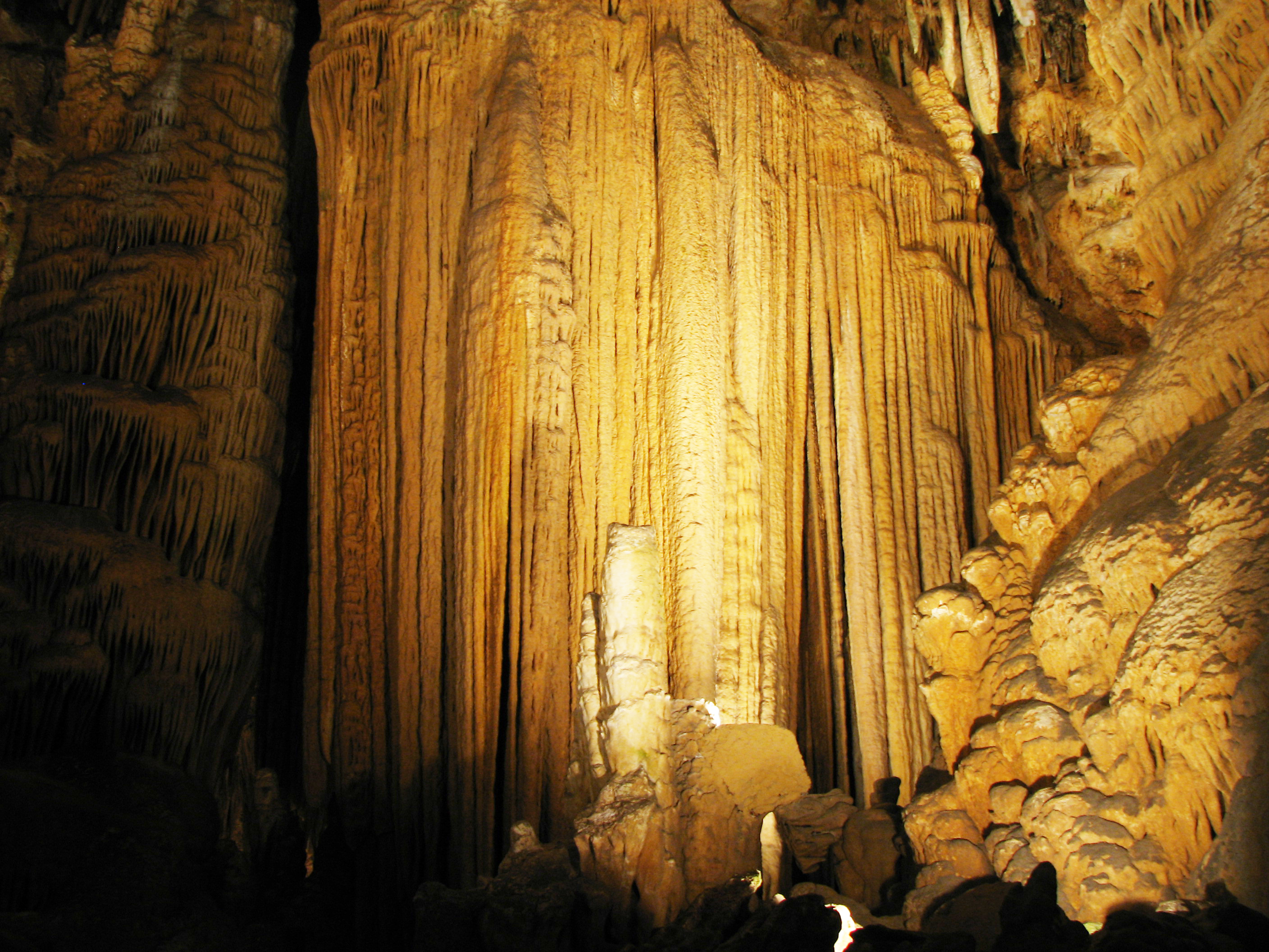 Luray Caverns